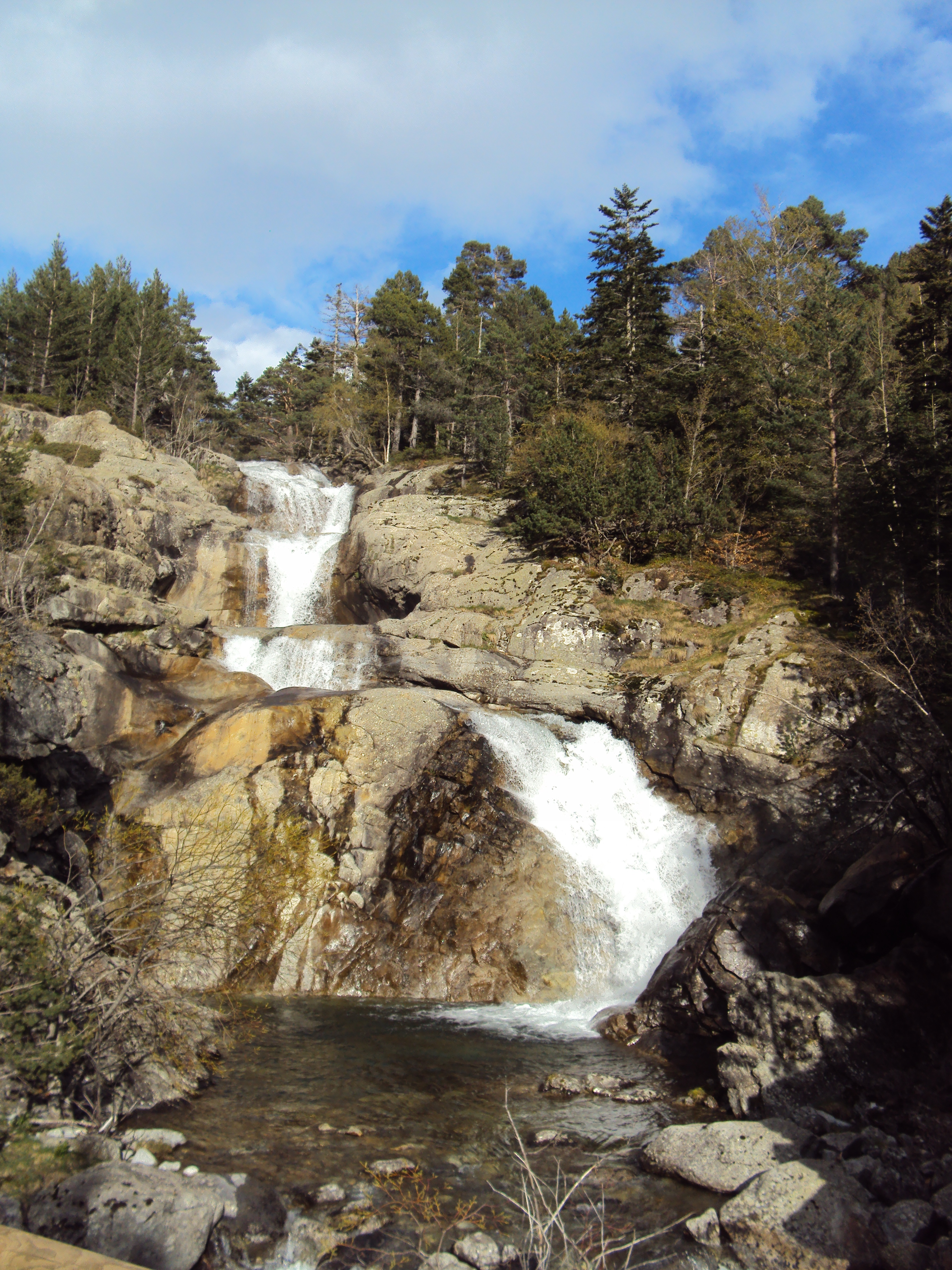 This is a photography of a Special Area of Conservation in Spain with the ID: ES0000022. Natura2000 entry, EEA entry